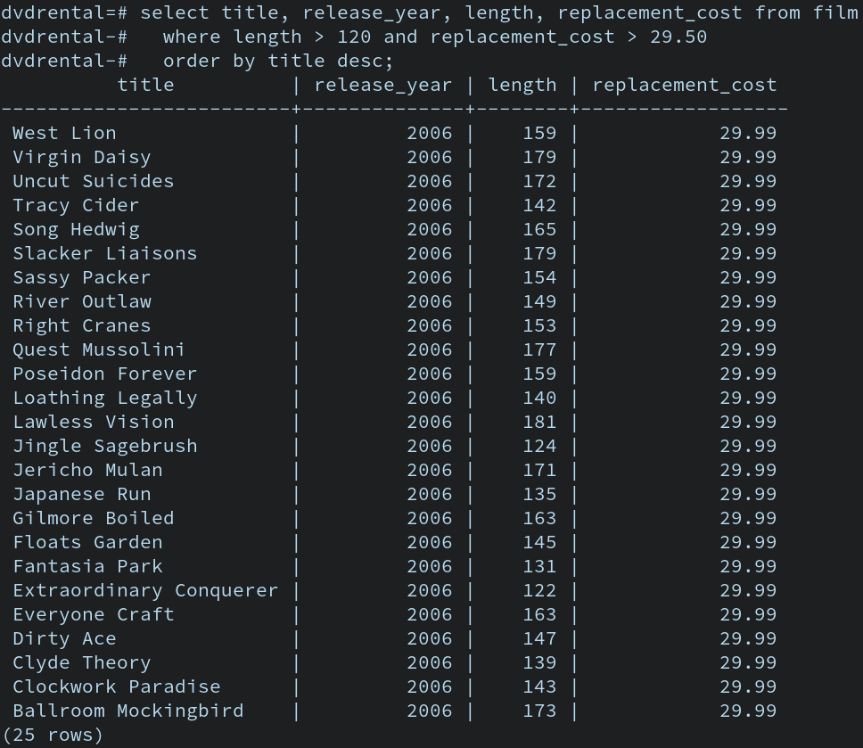 An SQL select statement against a publicly available teaching database.